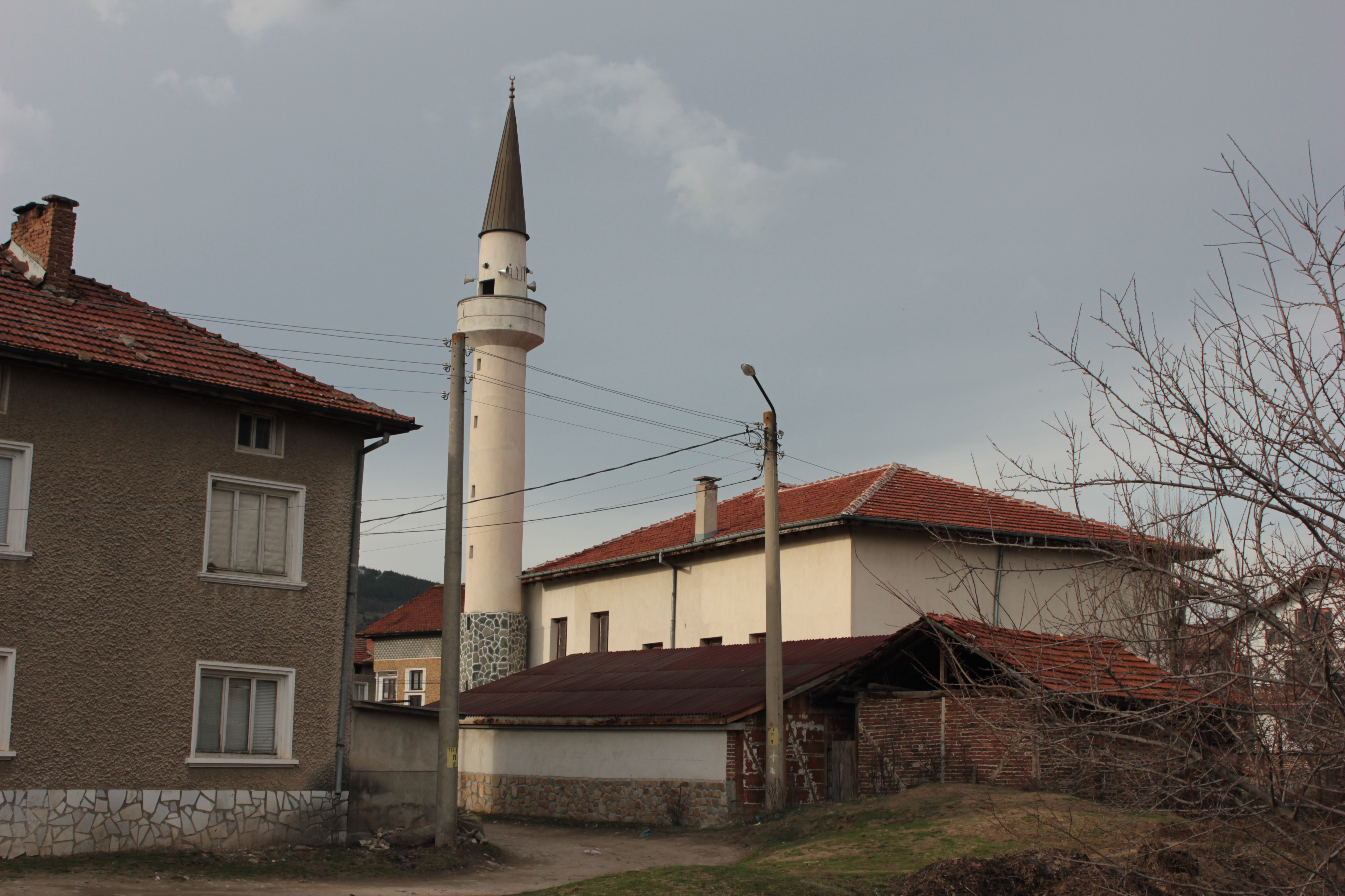 Kostandovo Mosque